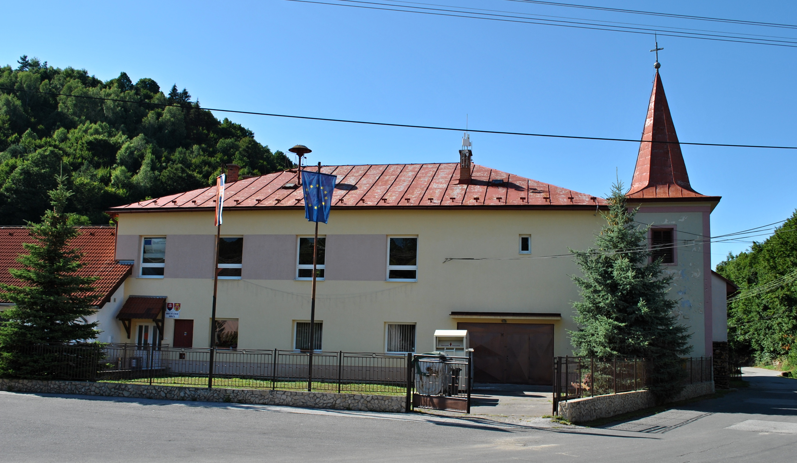 Môlča, district of Banská Bystrica - building of the municipal office in 2015